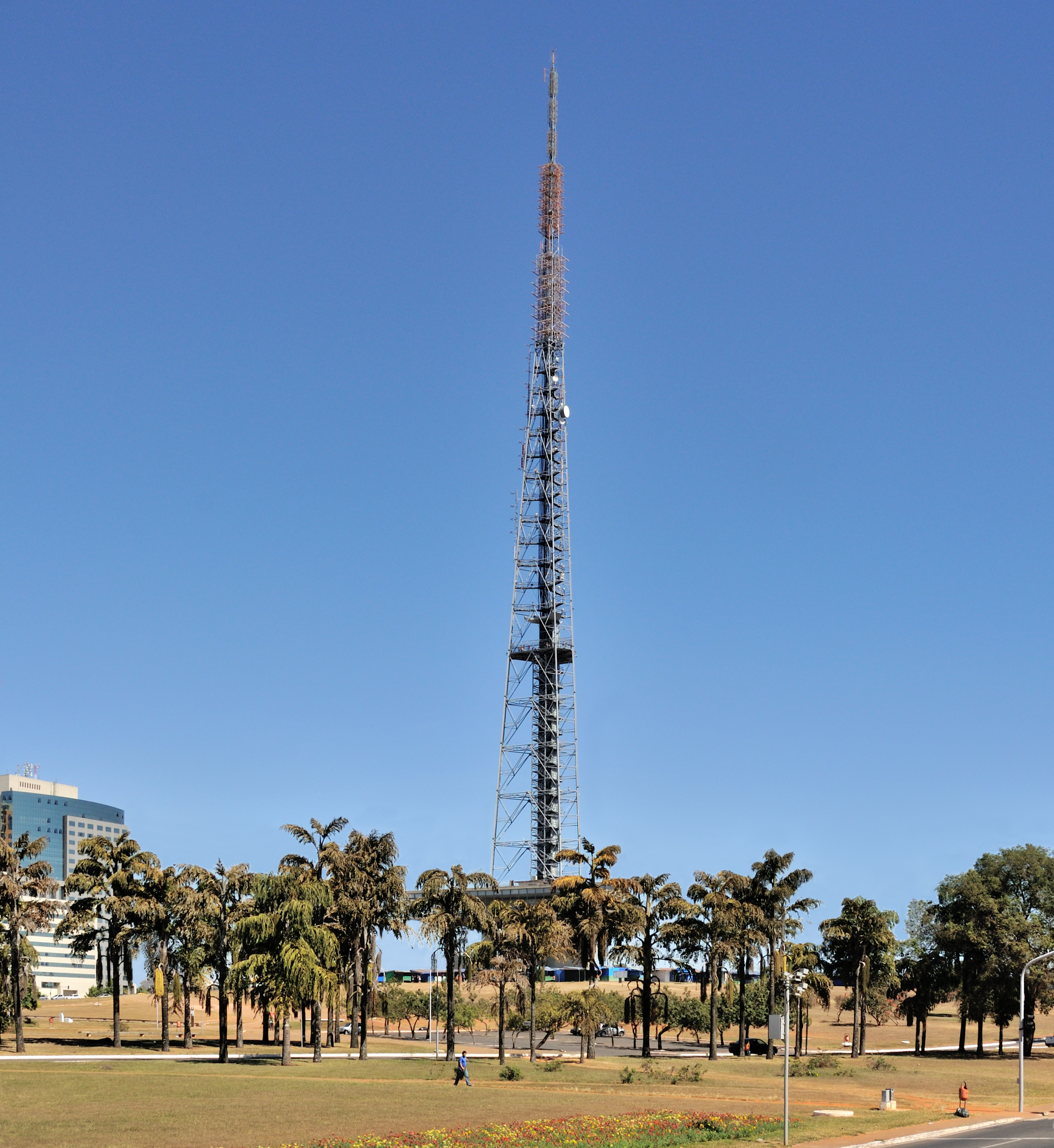 TV Tower in Brasilia seen from the West on Monumental Axis.